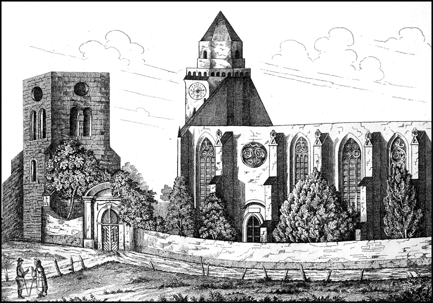 The St. Andrew church and the "Red" Tower in the 17th century